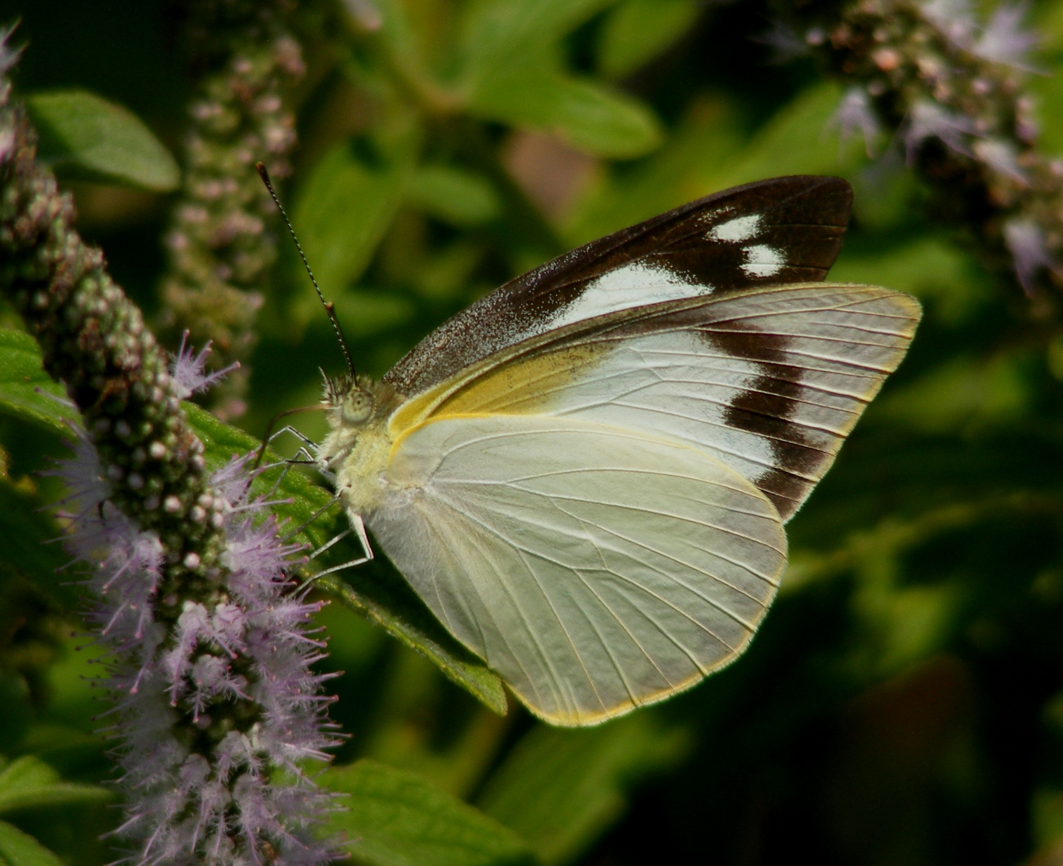 Common Albatross,_Appias albina _female